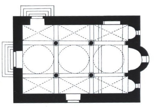 San Cataldo - plan